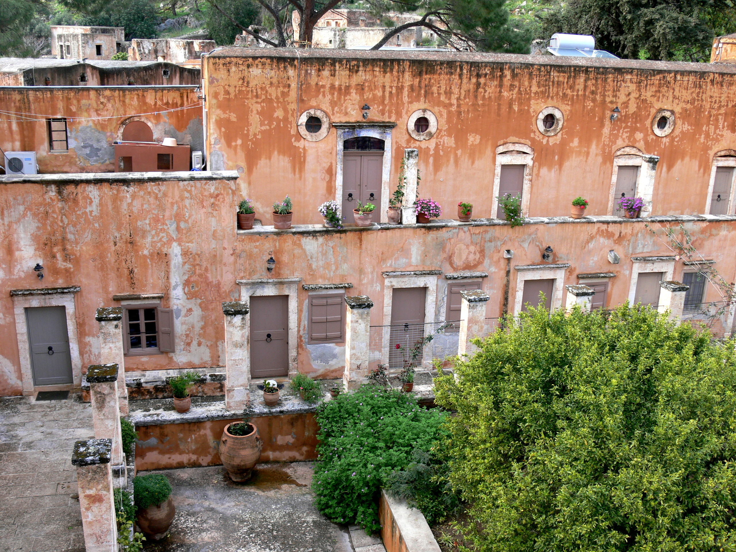 Agia Triada monastery, Akrotiri ( Crete ). Quarters of the monks in the courtyard of the monastery.